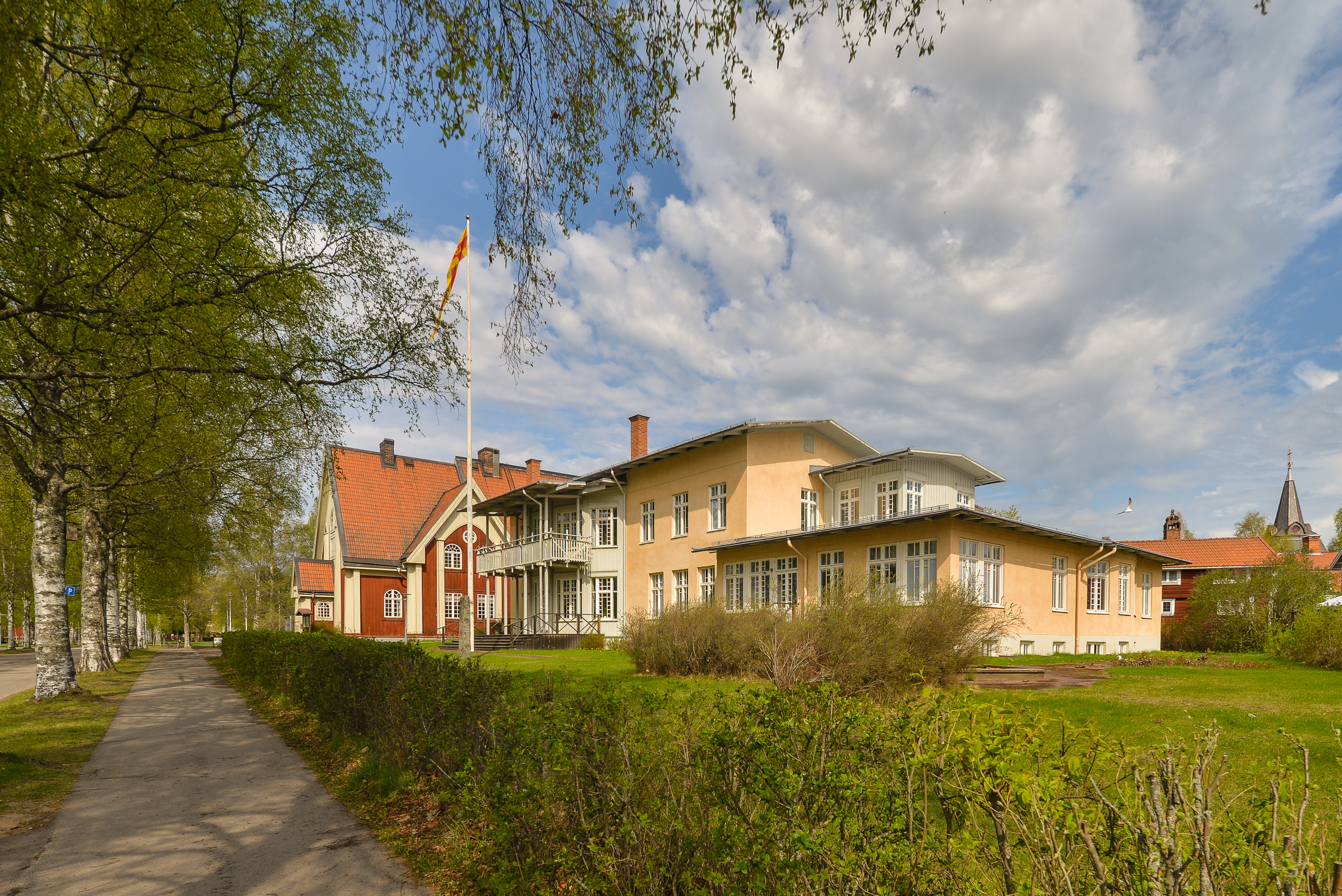 Sankt Persgården is a parish hall in Leksand.